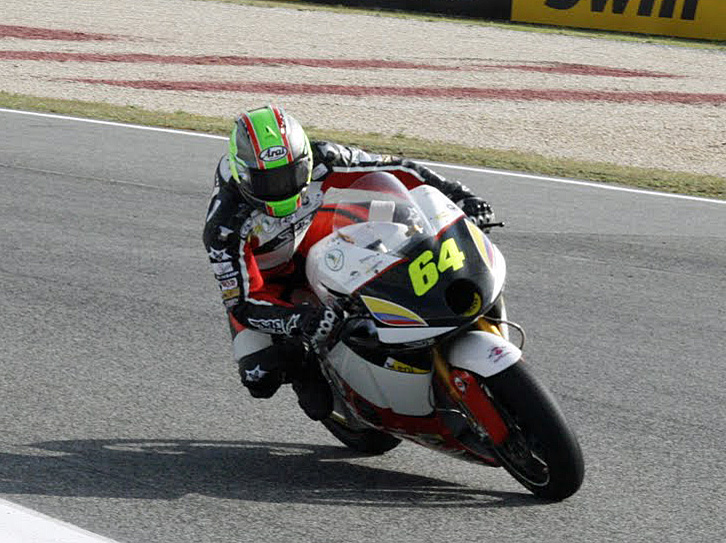 Santiago Hernandez 2011 Estoril